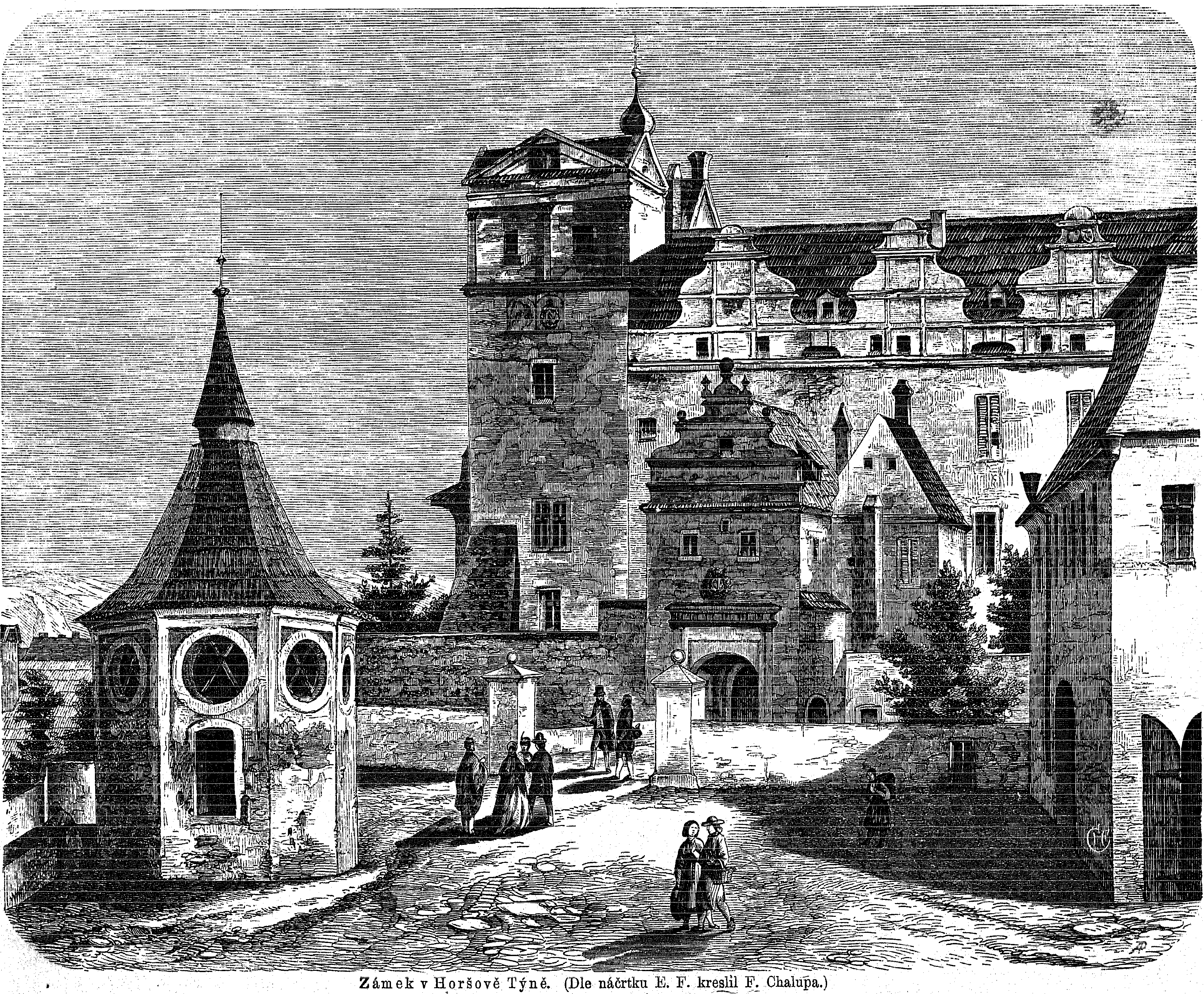 Castle-palace in Horšovský Týn, Bohemia (present-day Czech Republic)